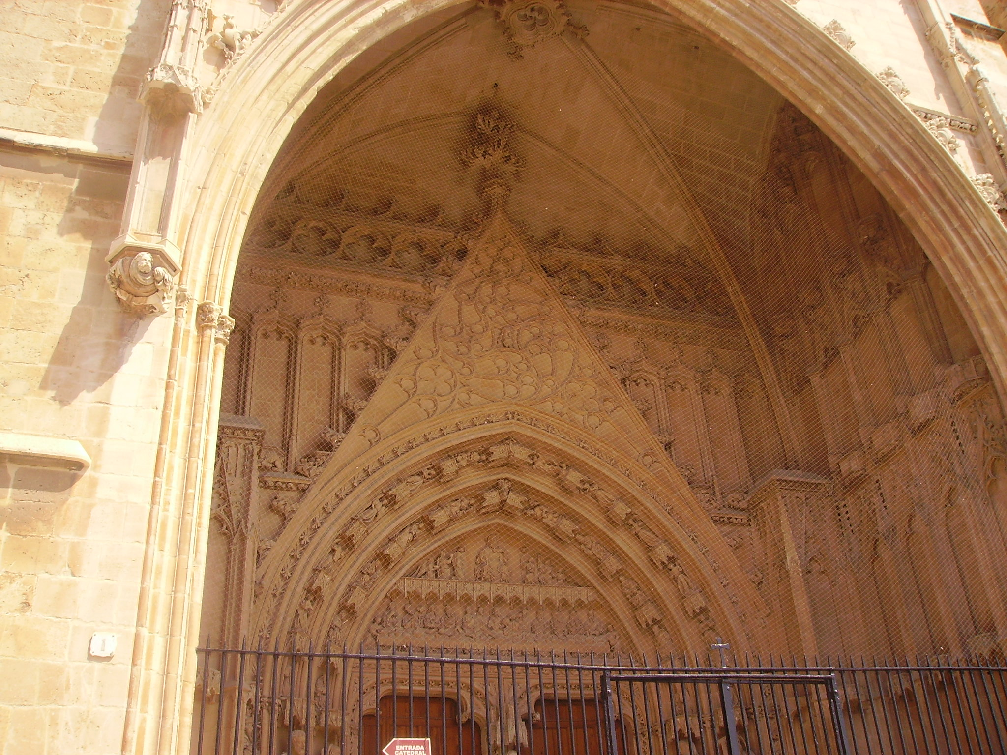 Mirador Portal of the catholic Cathedral St. Mary of Palma/La Seu, Palma de Mallorca